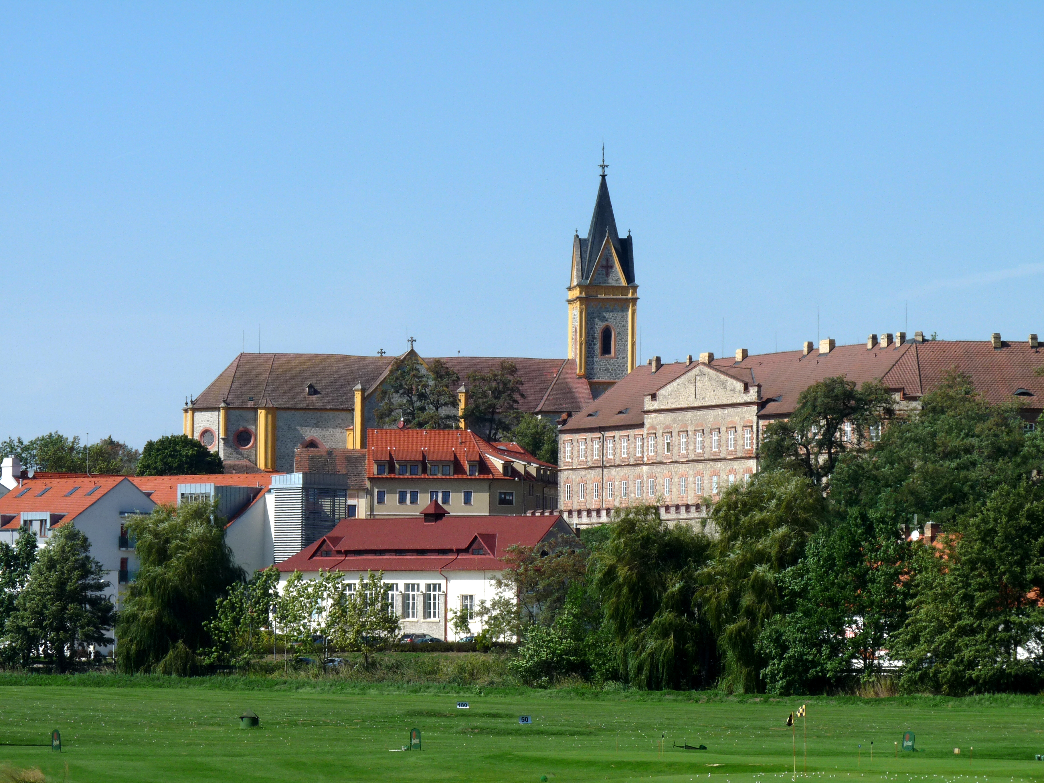 Church of Saint John of Nepomuk in the town of Hluboká nad Vltavou, South Bohemian Region, Czech Republic, as seen from the golf course.